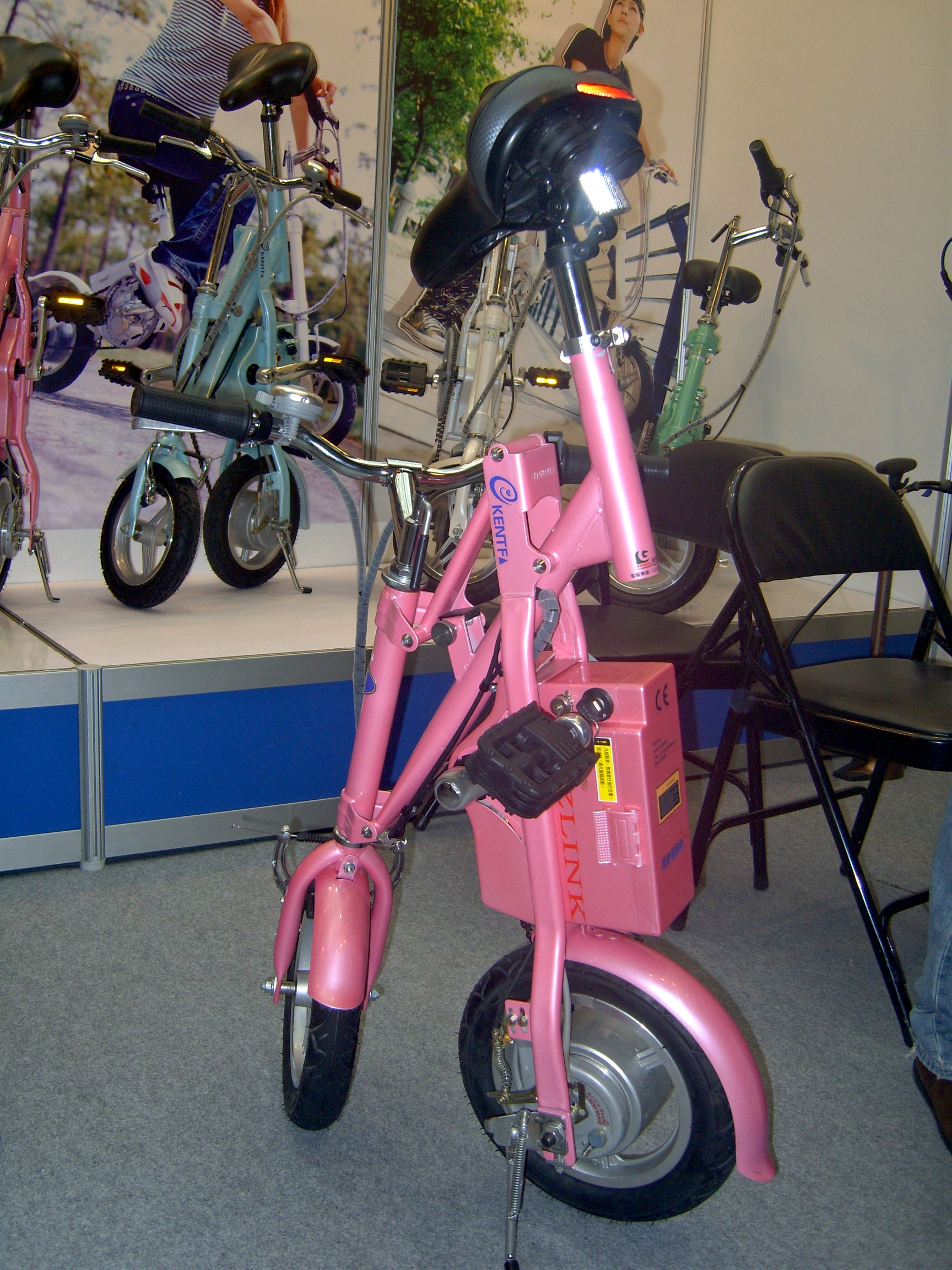 2008 Leisure Taiwan: GreenPower one-second foldable bicycle.